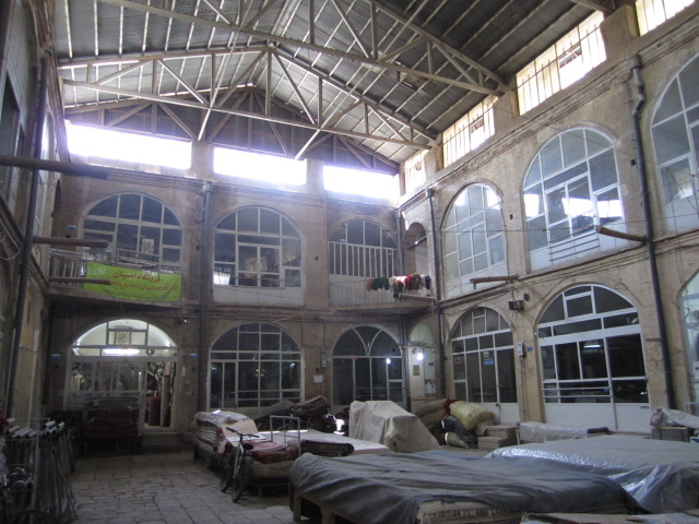 this is a part of arak old bazar